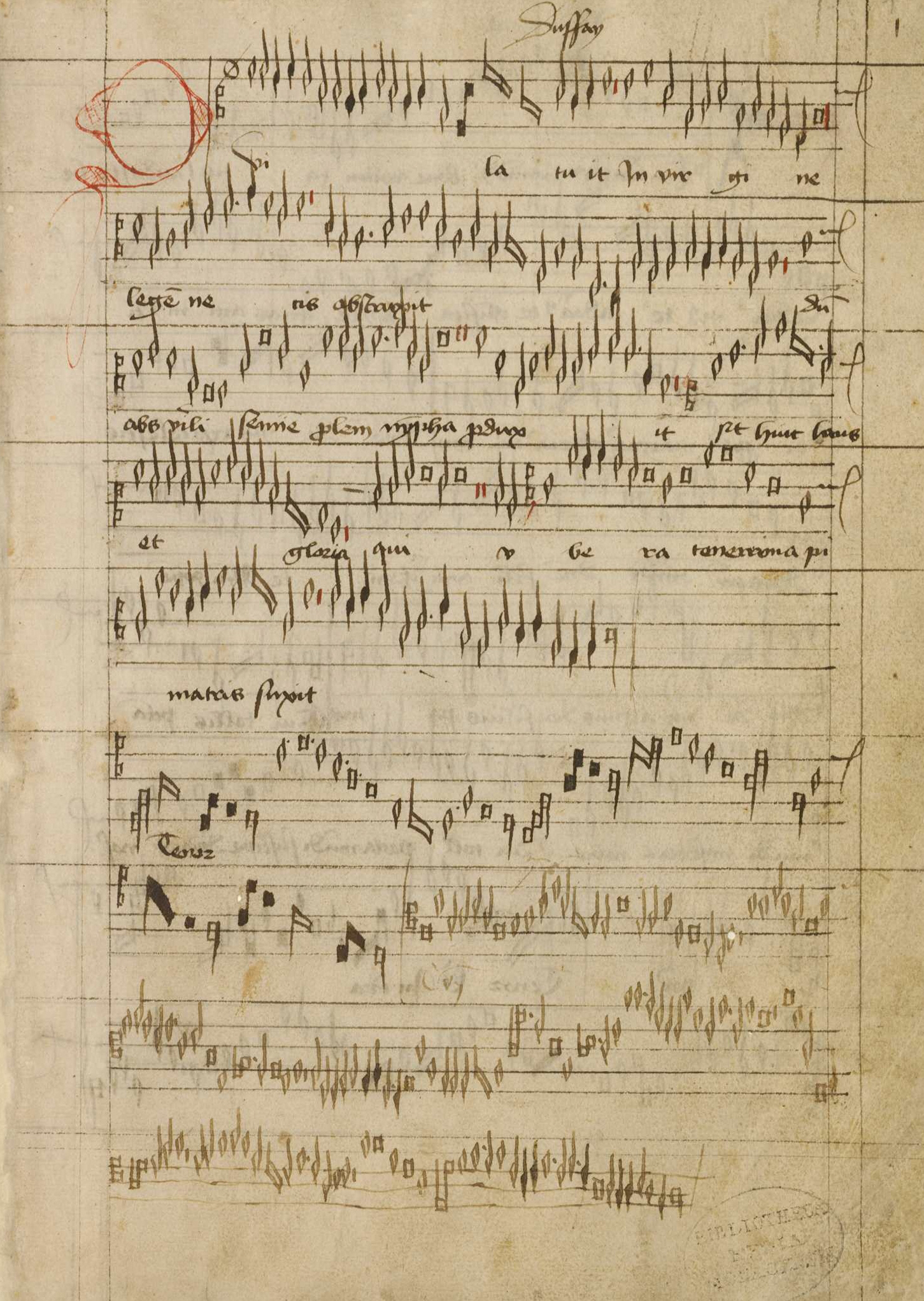 Page from the Codex St. Emmeram, BSB Clm 14274, fol. 1r